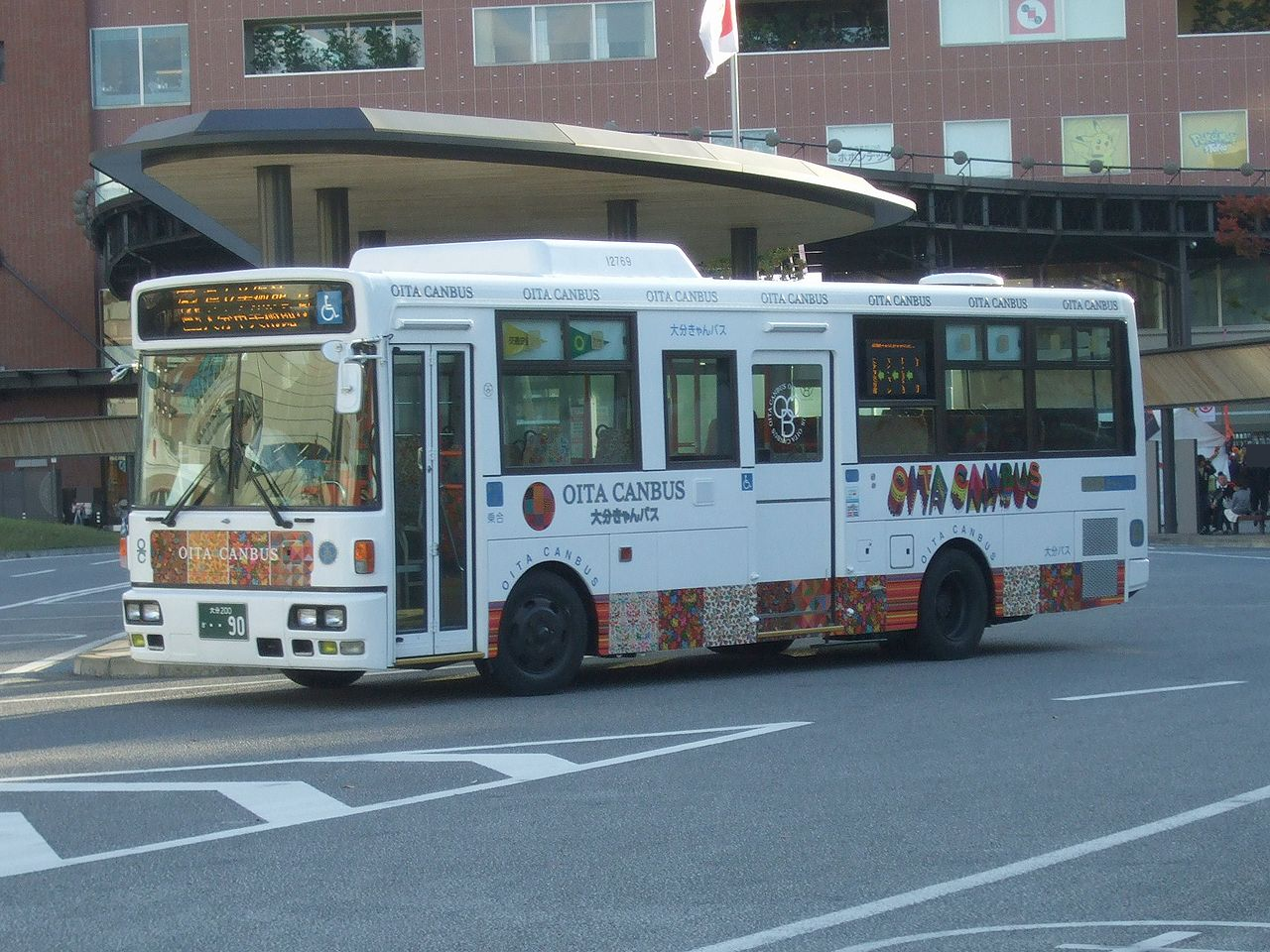 Oita City community bus "OITA CANBUS". Company:Oita Bus Use:transit bus (community bus) Car license:OT 200 KA 90 Code:12769 Chassis manufacturer:Hino Motors Type:Rainbow Coachbuilder:Nishinippon Shatai Kogyo Location:In front of Oita Station, Oita City, Oita, Japan.